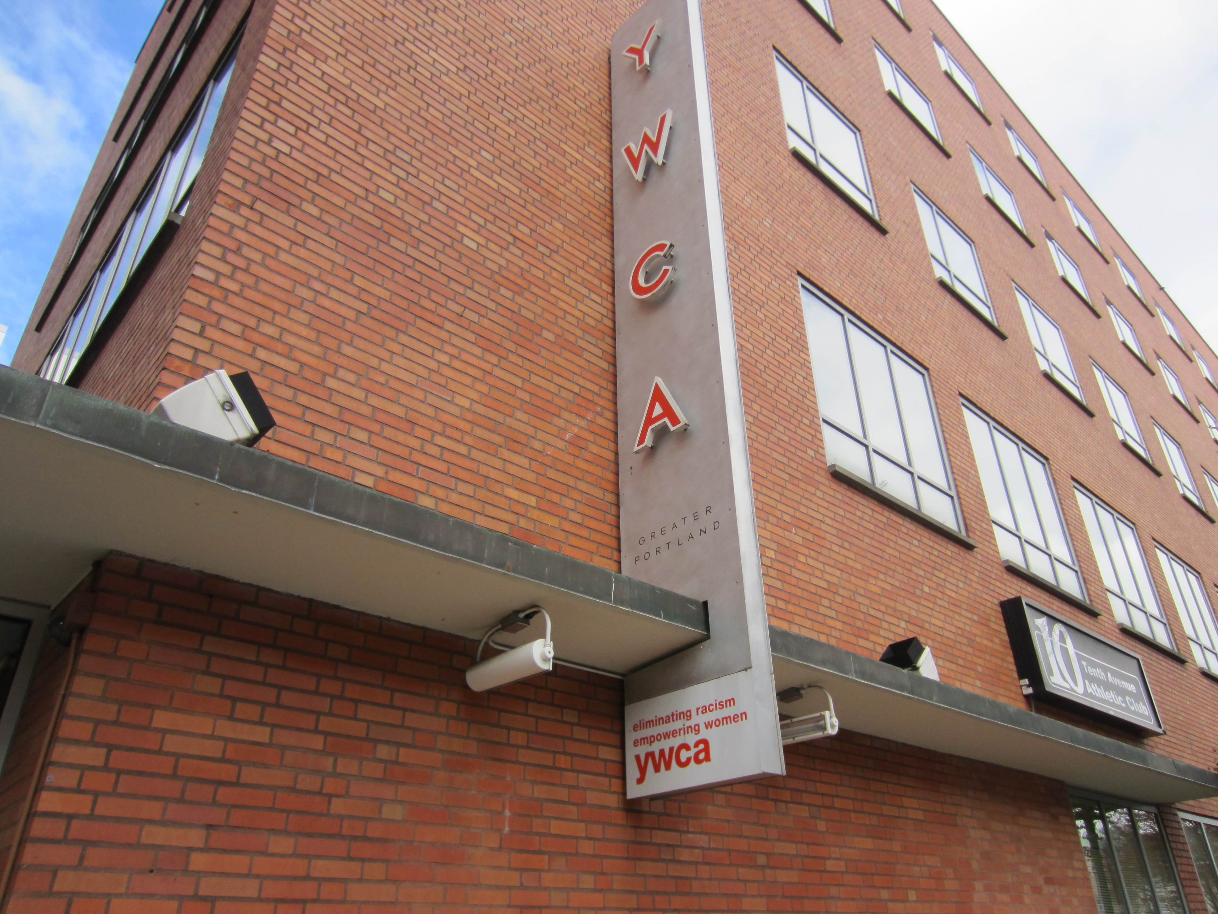 YWCA - Portland, Oregon (2014)